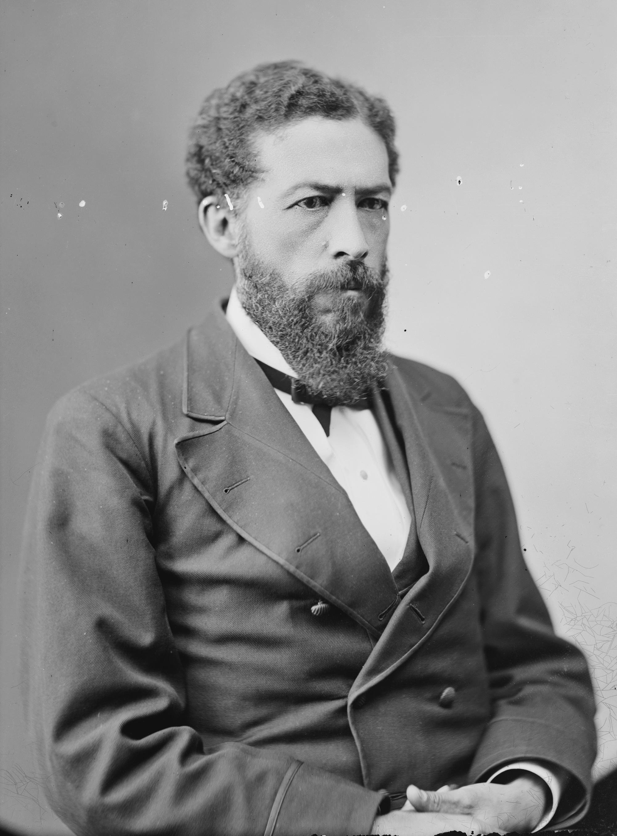 John Mercer Langston. Library of Congress description: "Prof. John Langston, Howard University".